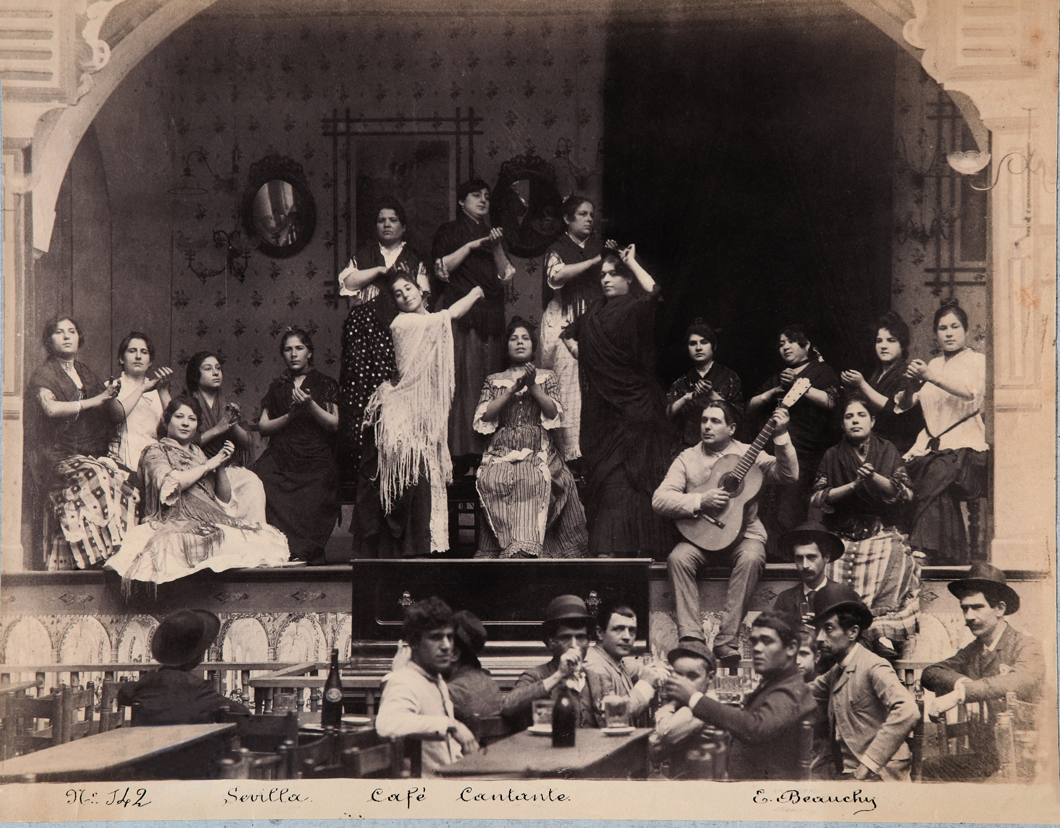 Nineteenth century photography, entitled "Café cantante," by photographer: Emilio Beauchy ("E. Beauchy"), Seville (Spain), circa 1888. Albumen print. Private collection of C. Teixidor.